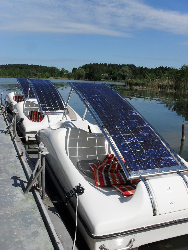 Solar boats at lake Nesselpfuhl in Lychen, Mecklenburg-Vorpommern, Germany